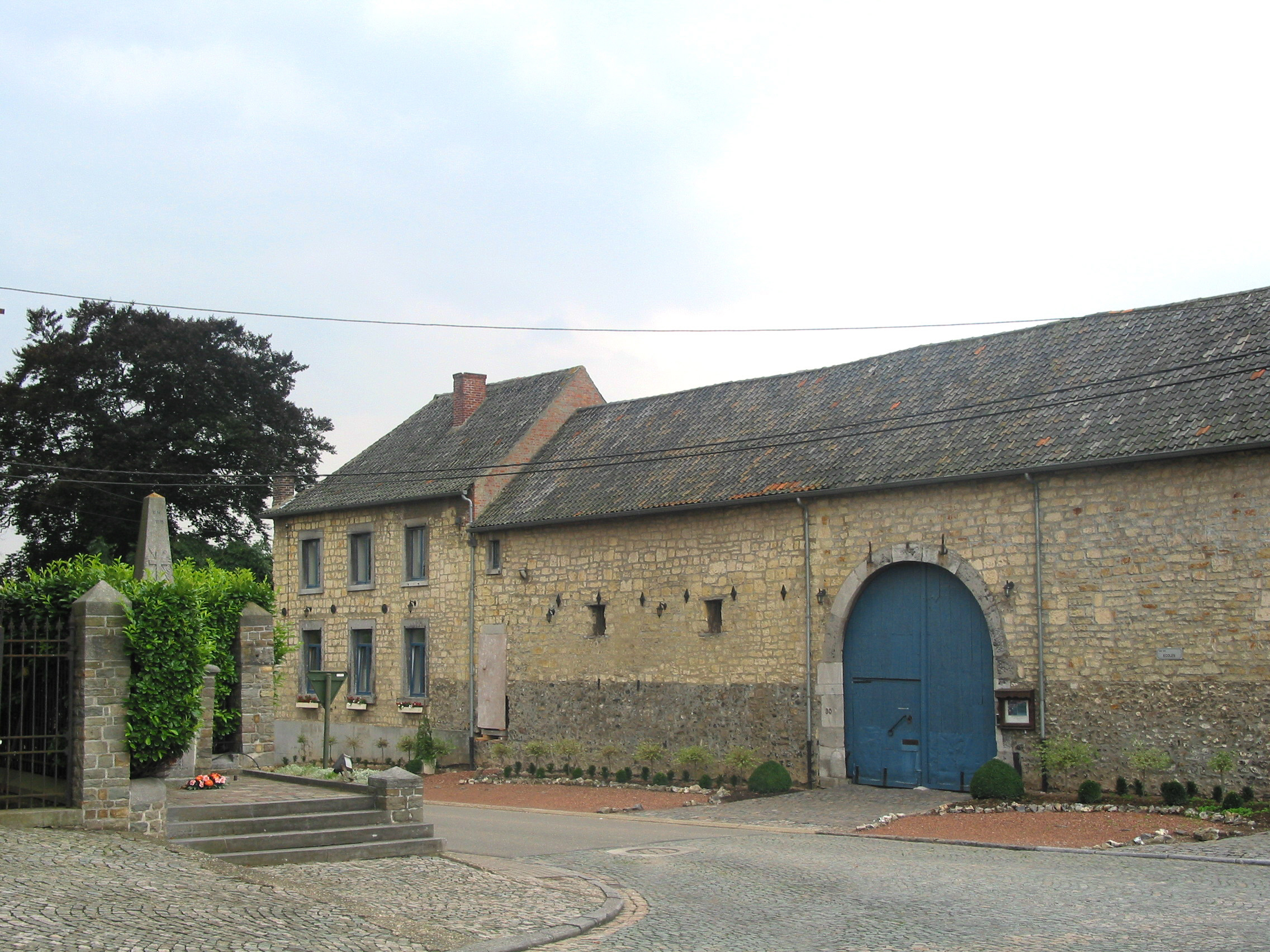 Lincent (Belgium), hesbignonne farm (XVIIIth century).